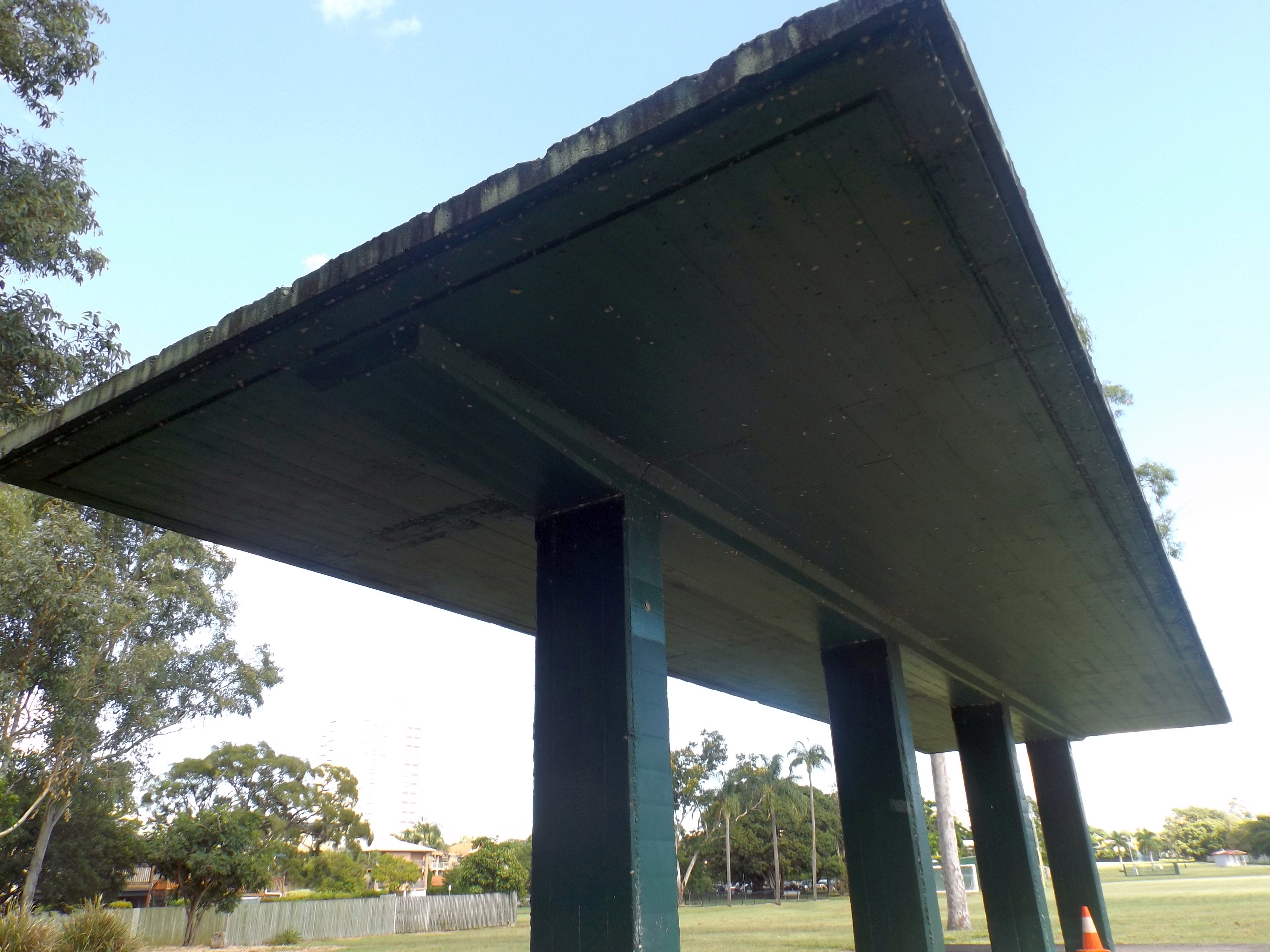 Photo of the Raymond Park (East) Air Raid Shelter showing the underside of the roof at Kangaroo Point, Brisbane, Queensland, Australia.